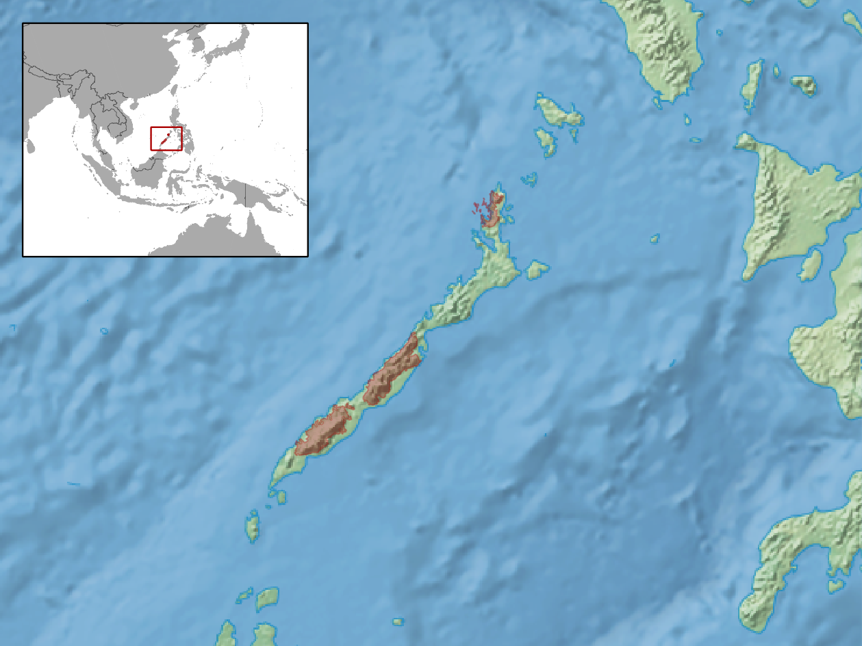 geographic distribution of Dasia griffini